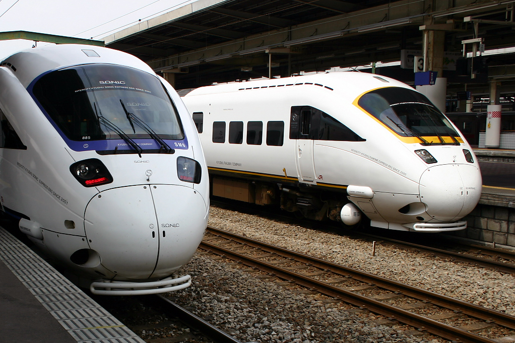 JR Kyushu 885 - Kagoshima Main Line - Hakata Station